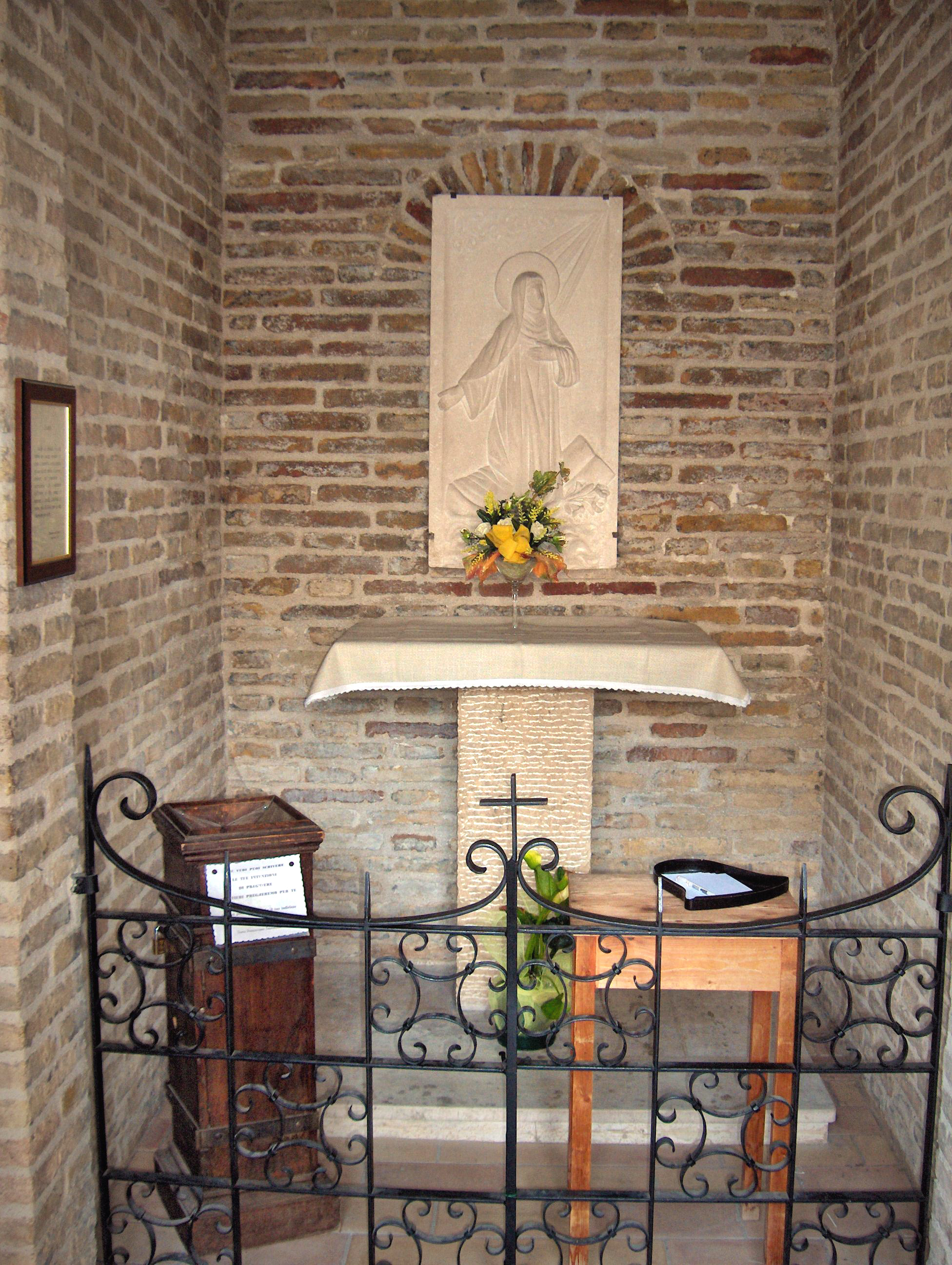 House of St. Clare just outside the Cathedral of San Rufino, Assisi, Italy